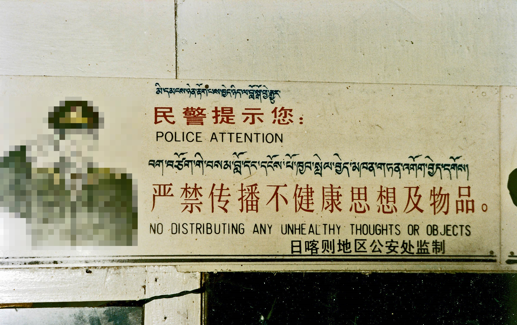 A trilingual (Tibetan - Chinese- English) sign. I took this photo above the entrance to a small cafe in Nyalam, Tibet in 1993